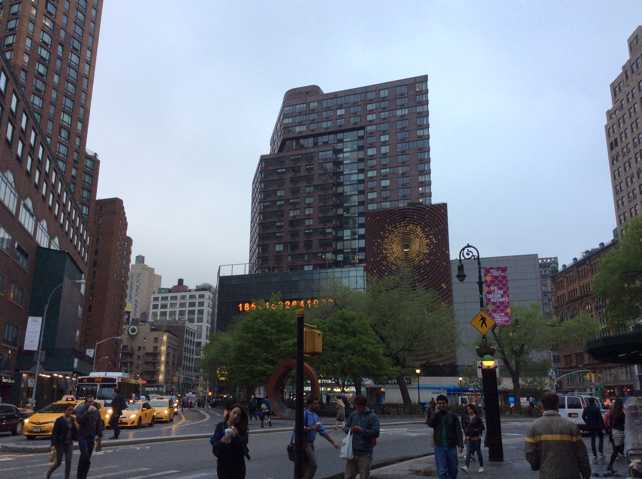 Union Square, New York, in April 2016